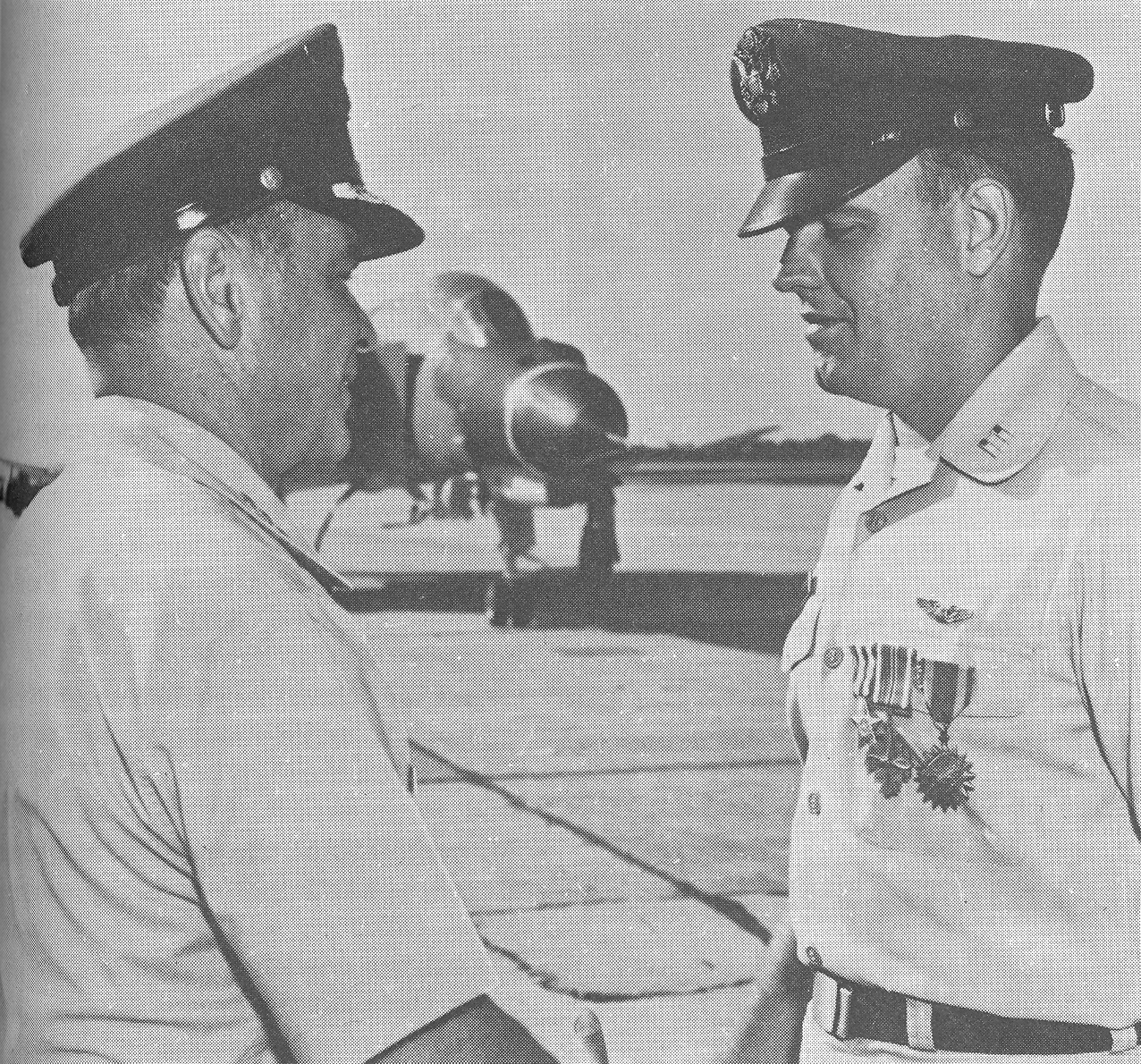 Original caption: A FATHER'S PRIDE -- Air Force Capt. Raymond J. Reeves (right), now an instructor pilot with the Tactical Air Command at MacDill AFB, Fla., received the Silver Star, Distinguished Flying Cross and the Air Medal for his recent service in Vietnam. Making the presentation was his father, Gen. Raymond J. Reeves, commander in chief of the North American Air Defense Command.